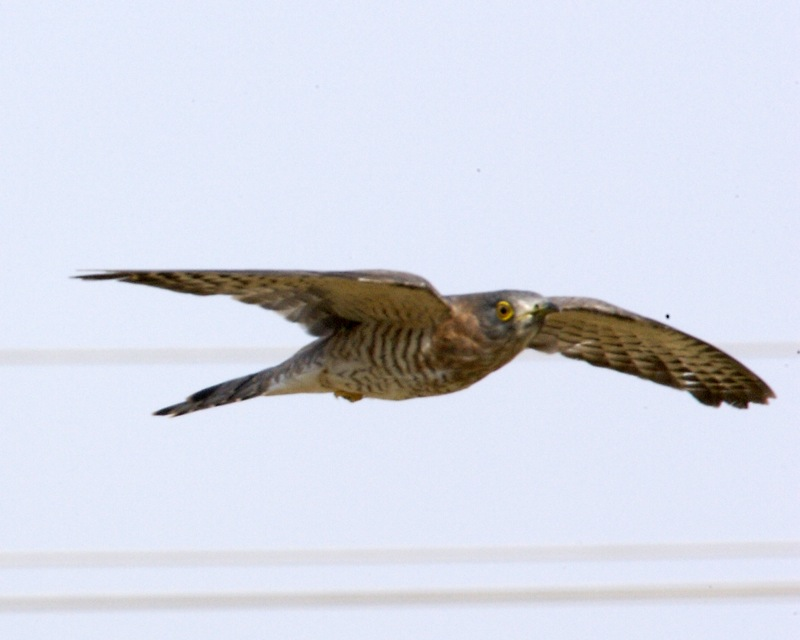 Common Hawk-cuckoo (Cuculus varius)